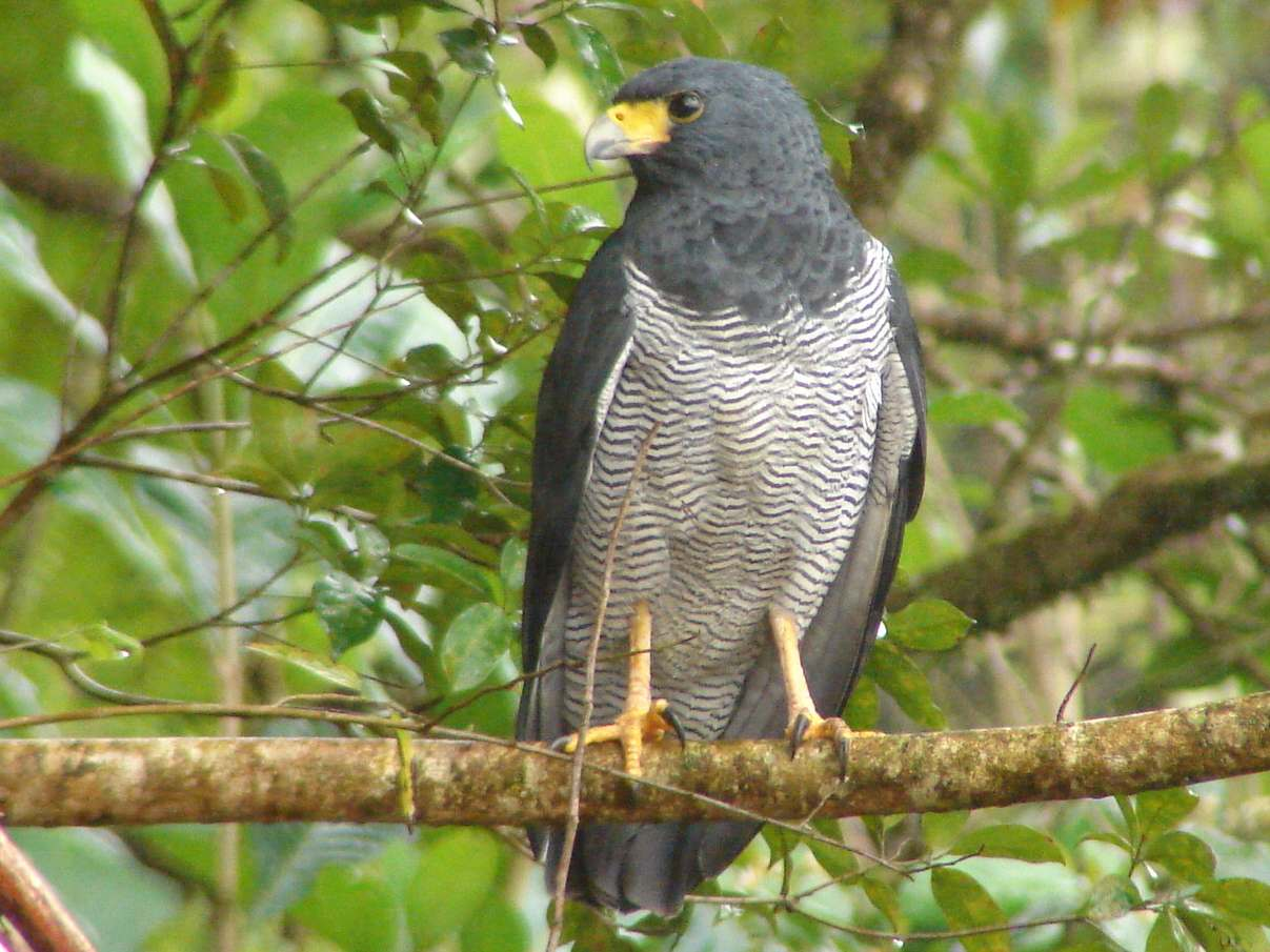 Barred Hawk, El Valle, Panama